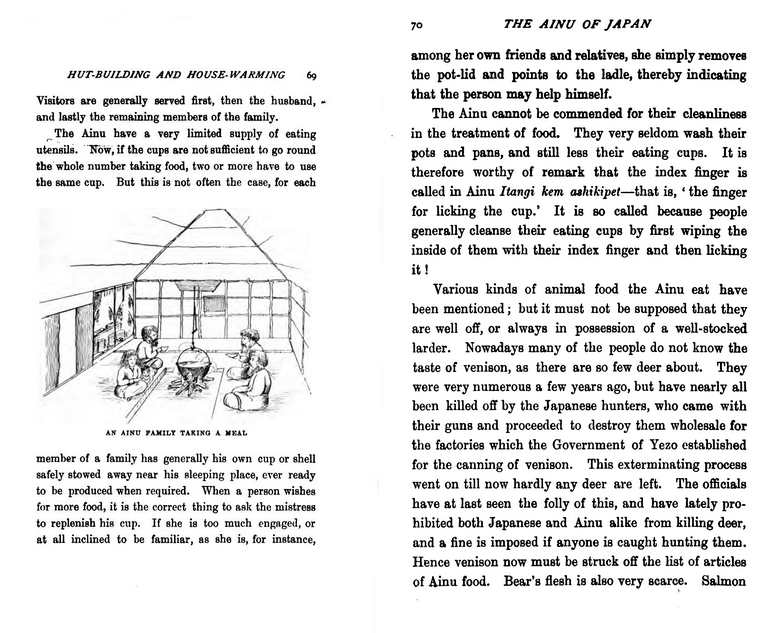 John Batchelor (1854-1944), The Ainu of Japan, 1892 ː An Ainu family taking a meal at home.